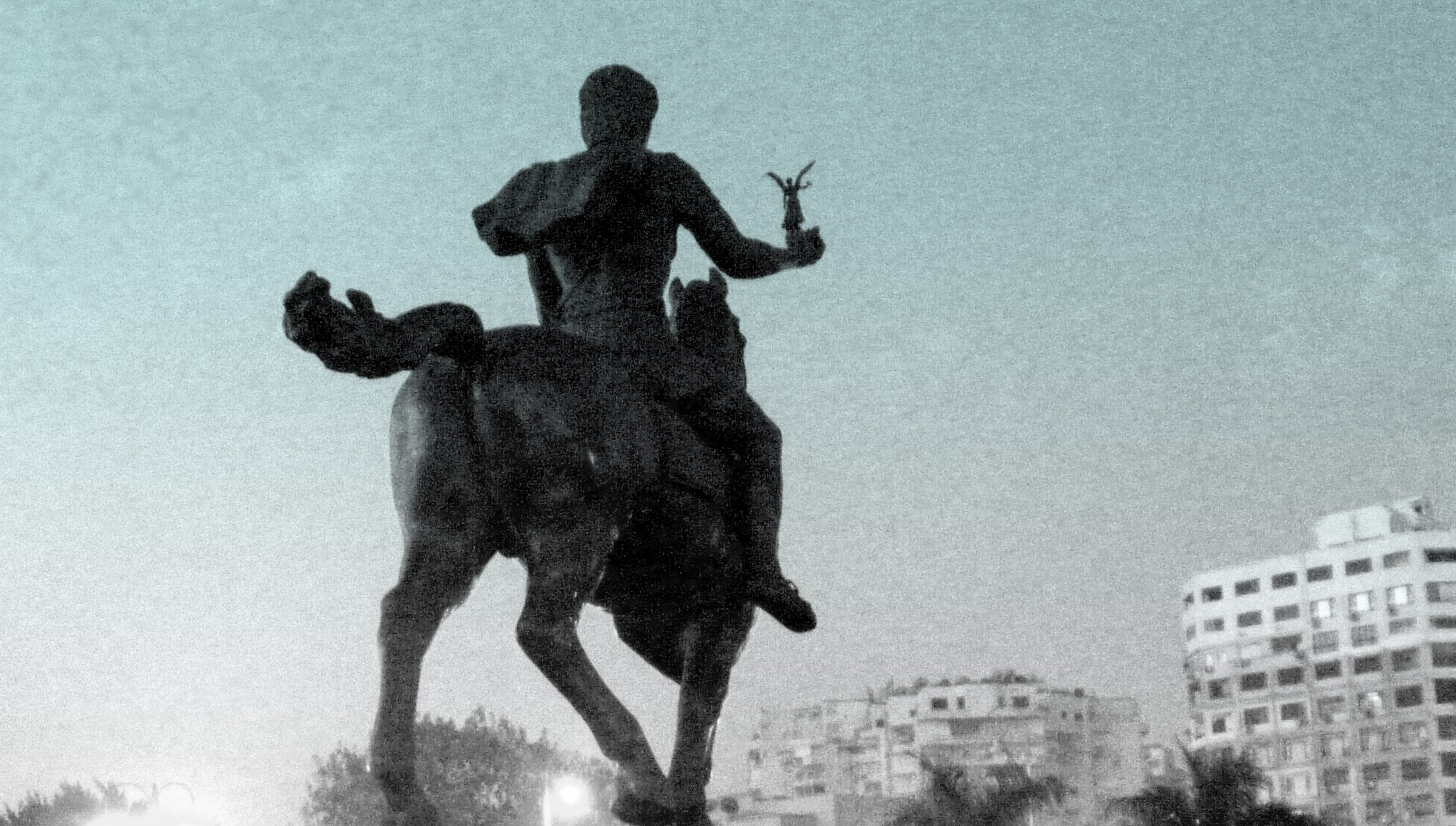 Statue of Alexander the Great riding Bucaphalus, in Alexandria, Egypt